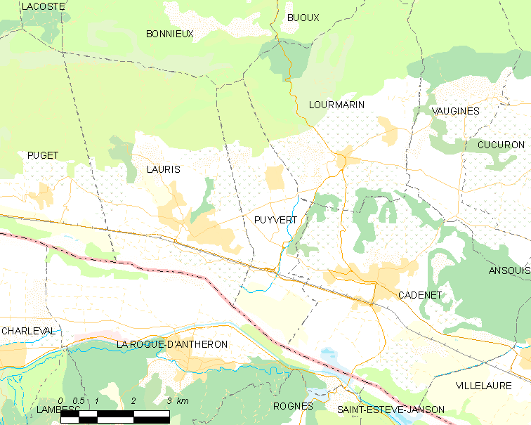 Map of French municipality Puyvert